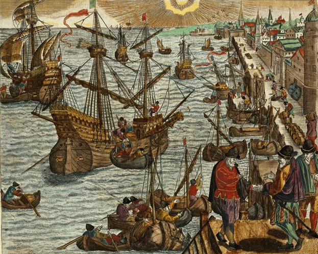 Fanciful engraving of Setúbal, Portugal, in 1547.